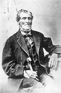 Martin Harris, underwriter of the first printing of The Book of Mormon and also served as one of Three Witnesses who testified that they had seen the Golden Plates from which Joseph Smith, Jr. said the Book of Mormon had been translated.